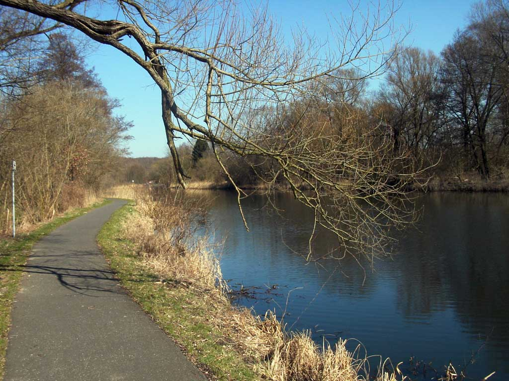 the towing route at Finowkanal at km 80.6 circa 1 km before Ragöser Schleuse